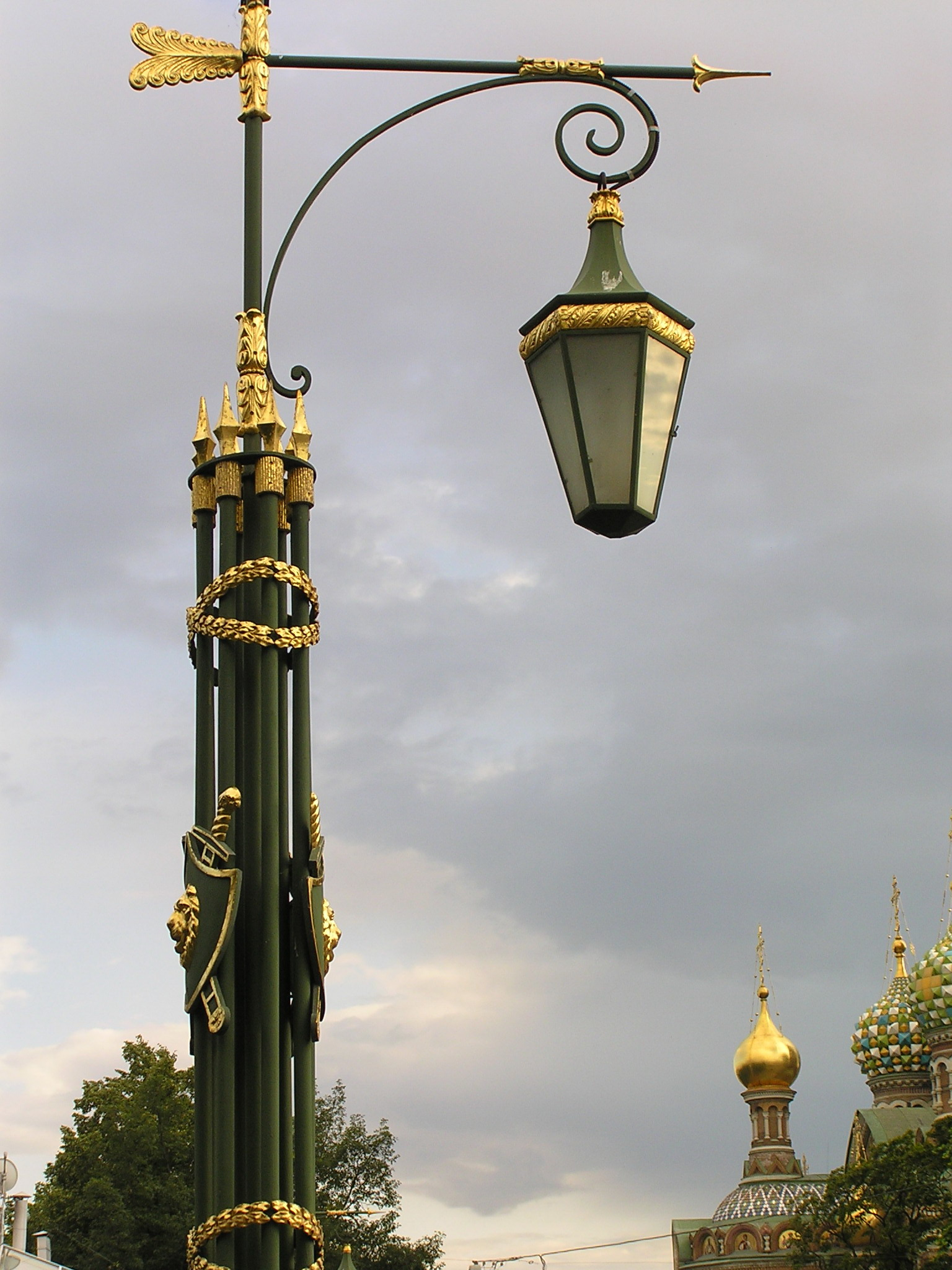 Image Saint Petersburg,Russia-Impressions 2,Sankt Petersburg/Russland Northern Capital of magic and light